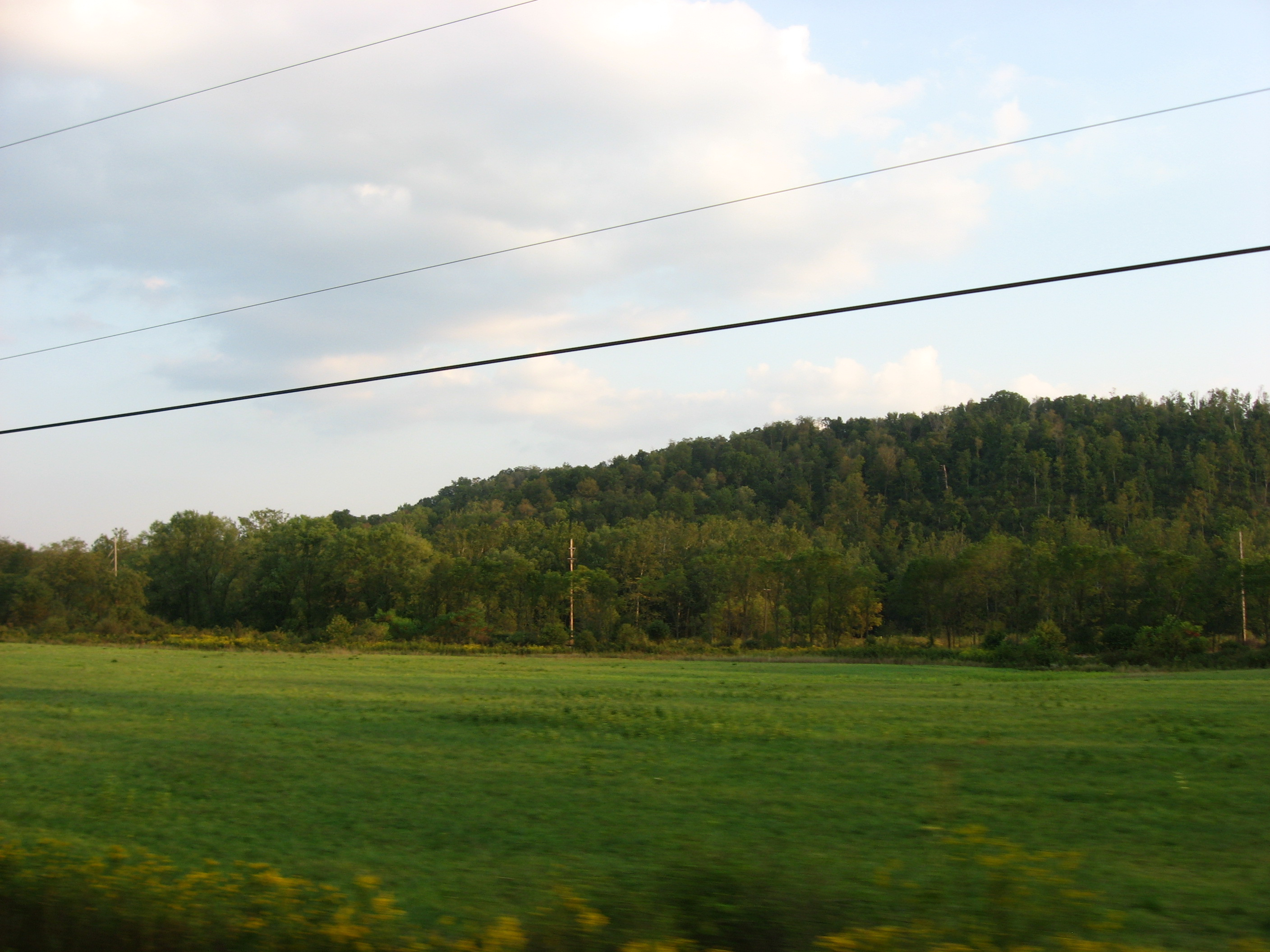 View of countryside in northeastern Middleton Township, Columbiana County, Ohio, United States, east of the community of Negley.